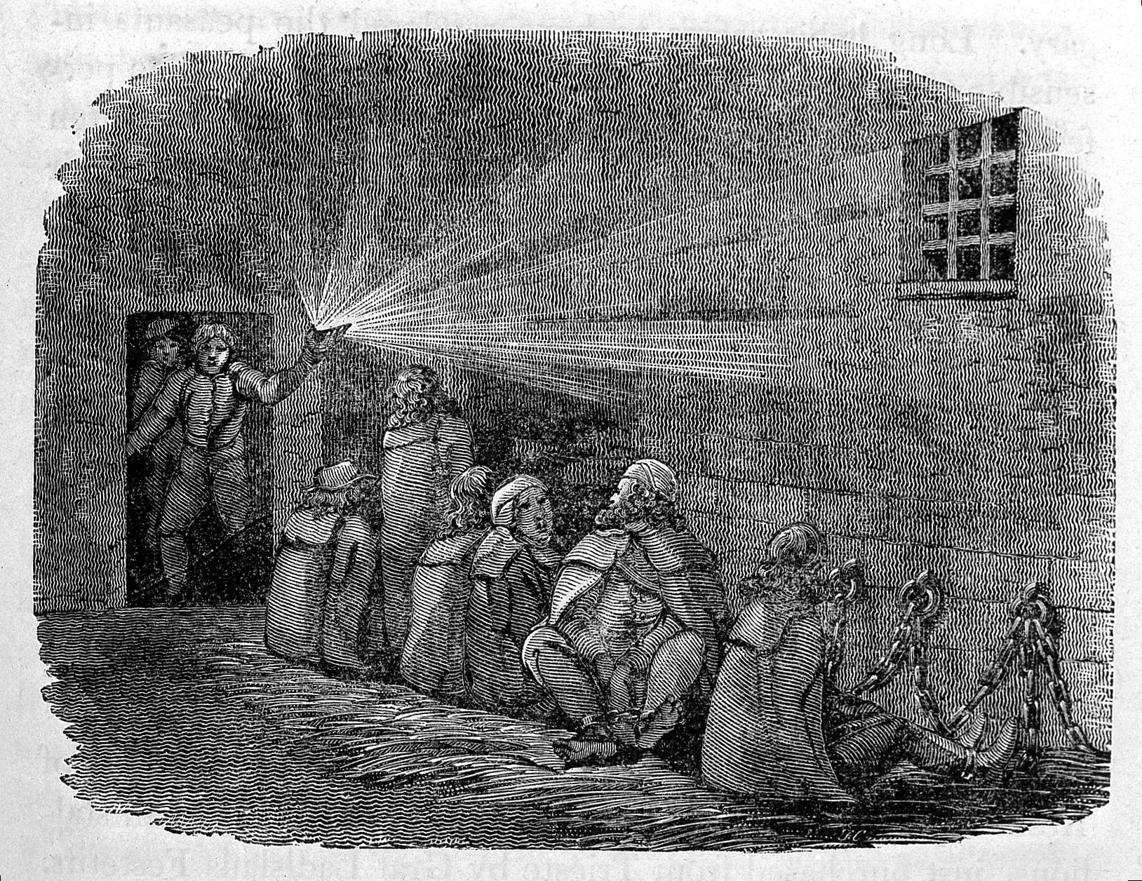 Scene in Hungarian Prison Rare Books Keywords: Prisons